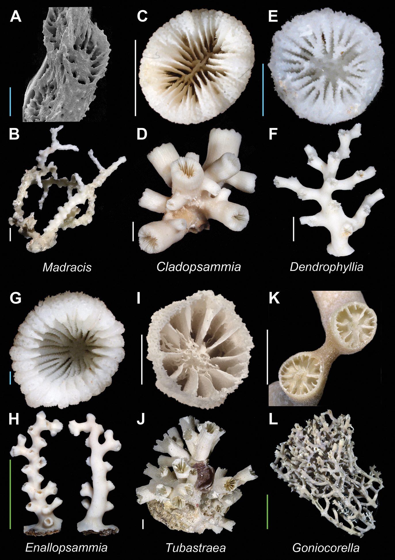 Madracis asperulaA (SEM, USNM 99068) and B (USNM 99056): Calicular and colony view respectively; Cladopsammia sp. (USNM uncatalogued, Norfolk 2 stn. 2023)C and D Calicular and colony view respectively; Dendrophyllia alcocki (USNM uncatalogued, Norfolk 2 stn. 2135)E and F Calicular and colony view respectively; Enallopsammia rostrata (USNM uncatalogued, Norfolk 2 stn. DW 2056) G and H Calicular and colony (calicular and acalicular side) view respectively; Tubastraea coccinea(USNM 46973) I Calicular view; Tubastraea diaphana (USNM 83677) J Colony view; Goniocorella dumosa(USNM 47505) K and L Calicular and colony view respectively. Scale bars: blue = 1 mm; white = 5 mm; green = 50 mm. Bold face indicates type species for the genus.